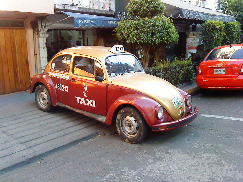 A 2000 Volkswagen Beetle Mexico City Bicentennial Taxi Cab (New color scheme.)